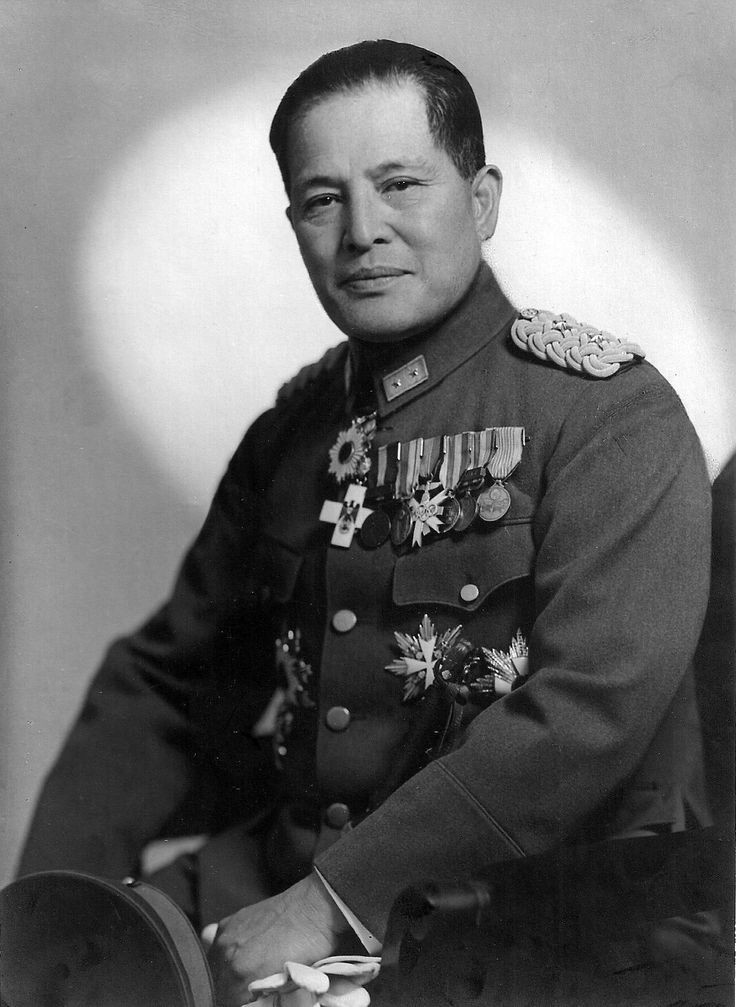 Lieutenant General Hiroshi Ōshima in IJA uniform